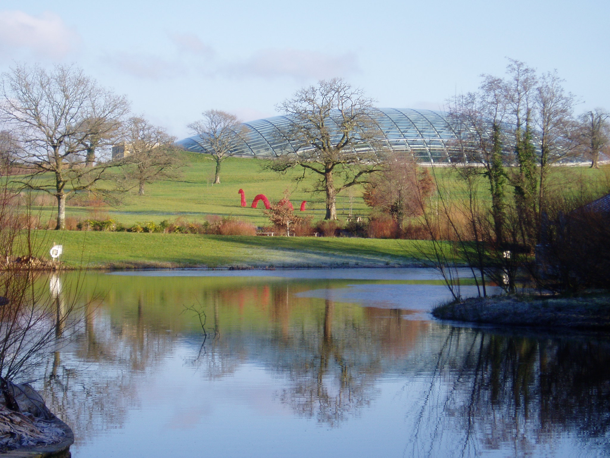 National Botanic Garden of Wales. General view showing lakes, dragon and the Mediterranean dome.